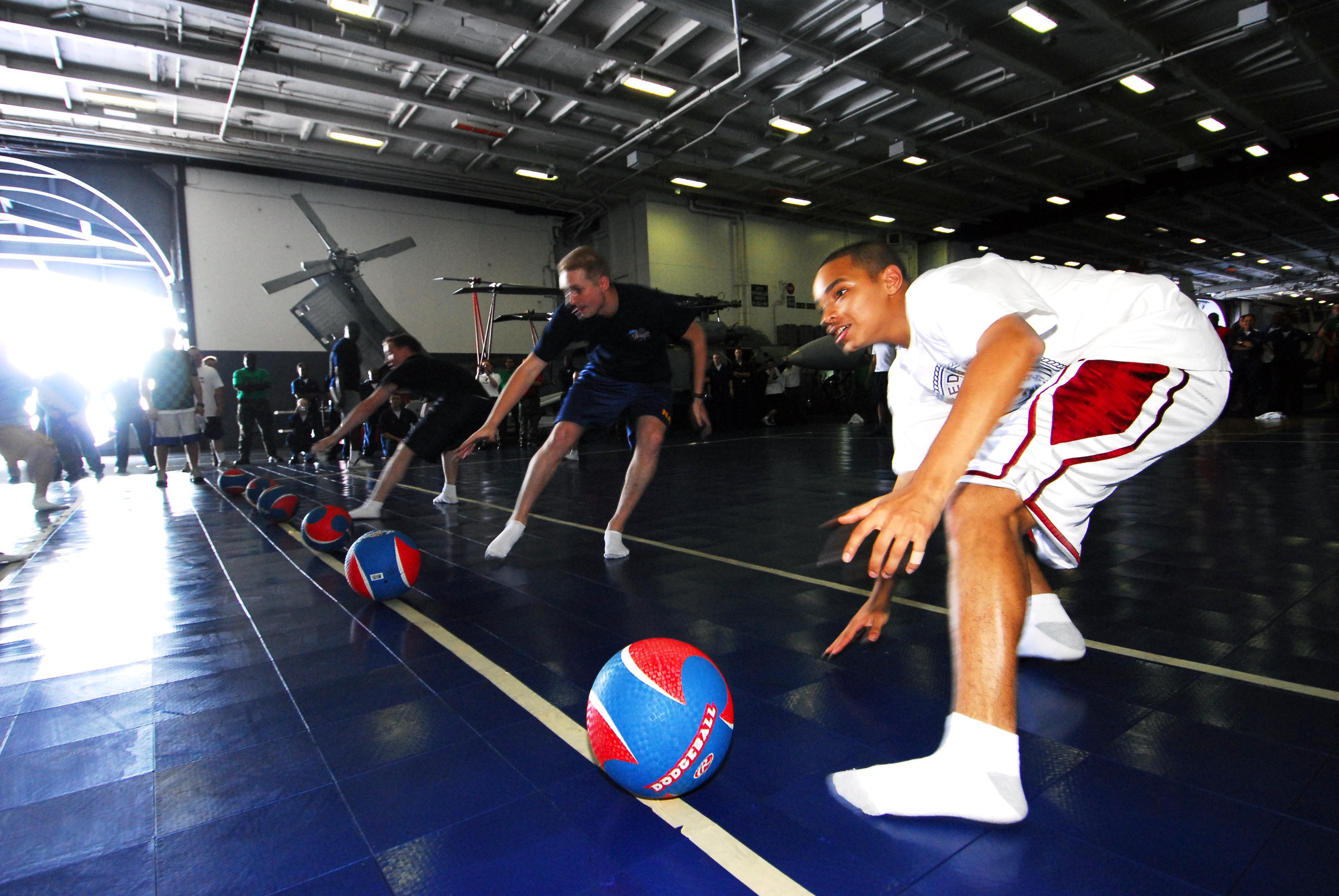 PACIFIC OCEAN (April 21, 2007) – Sailors participate in a dodge ball tournament, sponsored by Morale, Welfare and Recreation (MWR), in the hangar bay aboard nuclear-powered aircraft carrier USS Nimitz (CVN 68). Nimitz Carrier Strike Group (CSG) deployed April 2, 2007, in support of operations in the U.S. Central Command area of responsibility. U.S. Navy photo by Mass Communication Specialist Seaman Jake Berenguer (RELEASED)